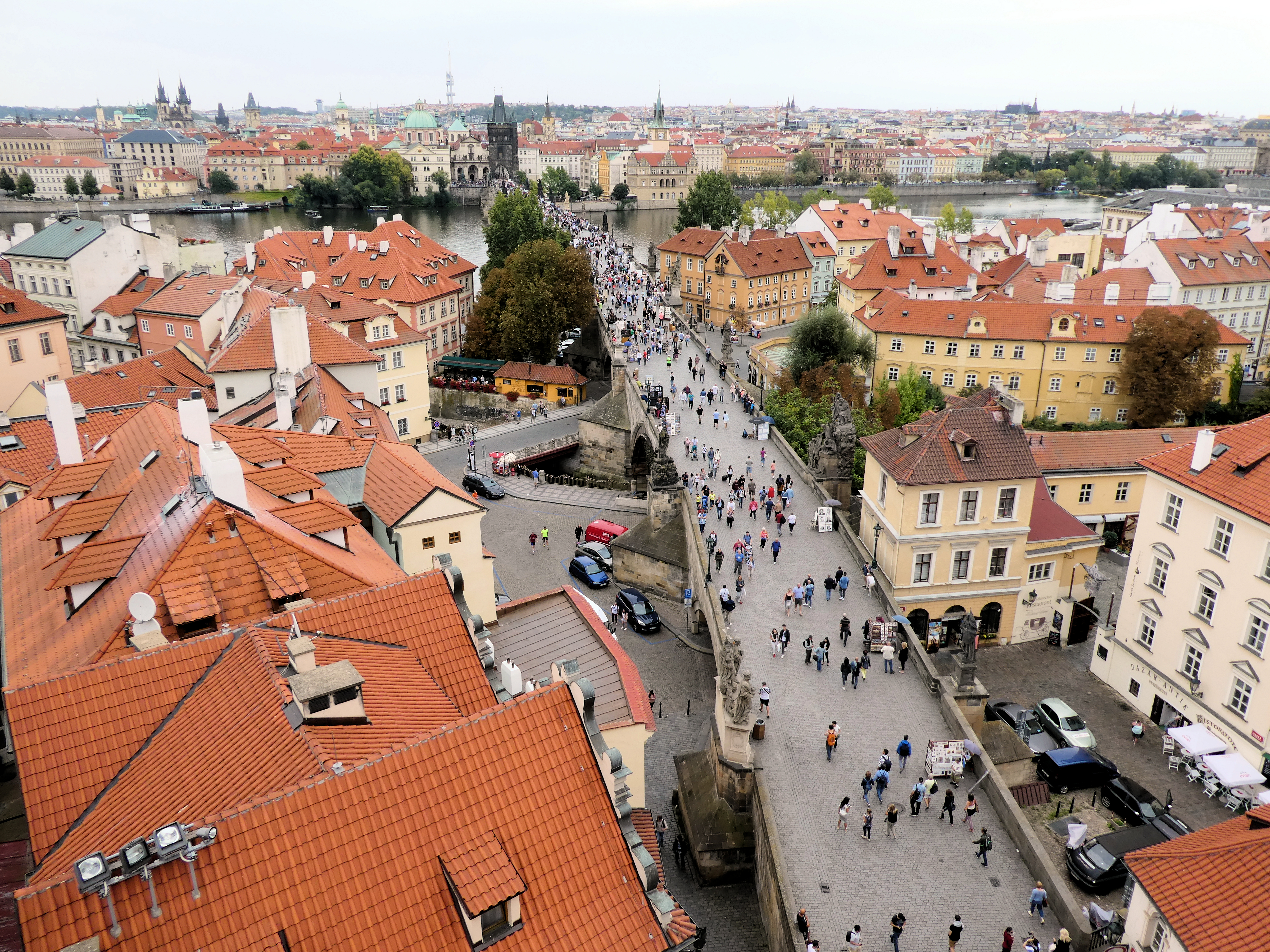 Charles Bridge, view from Malá Strana Bridge Tower. Prague.